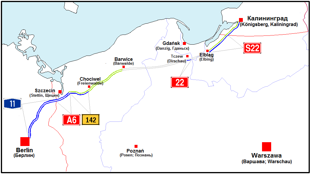 Map of the Berlinka, Germany, Poland, Russia